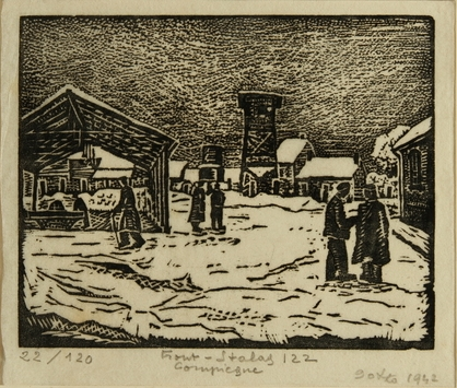 Linocut print of a yard in the Compiègne internment camp in German-occupied France created by artist Jacques Gotko in 1942. The print was acquired by George Waldman, who was held in Compiègne from December 1941 to July 1943. United States Holocaust Memorial Museum Collection, Gift of Deborah Pearson and Janet Waldman